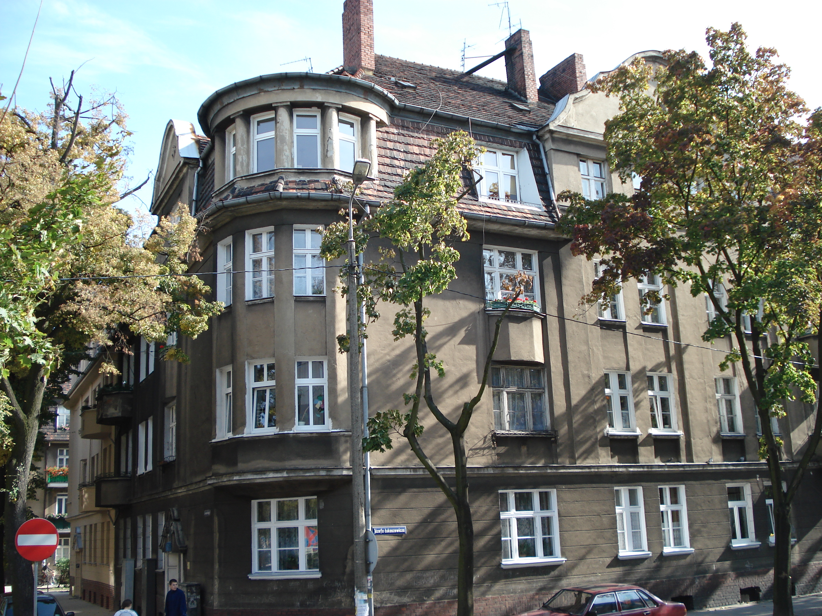 Officials house, Łukaszewicza Street in Poznań. Proj. Joseph Leimbach, 1912-1913